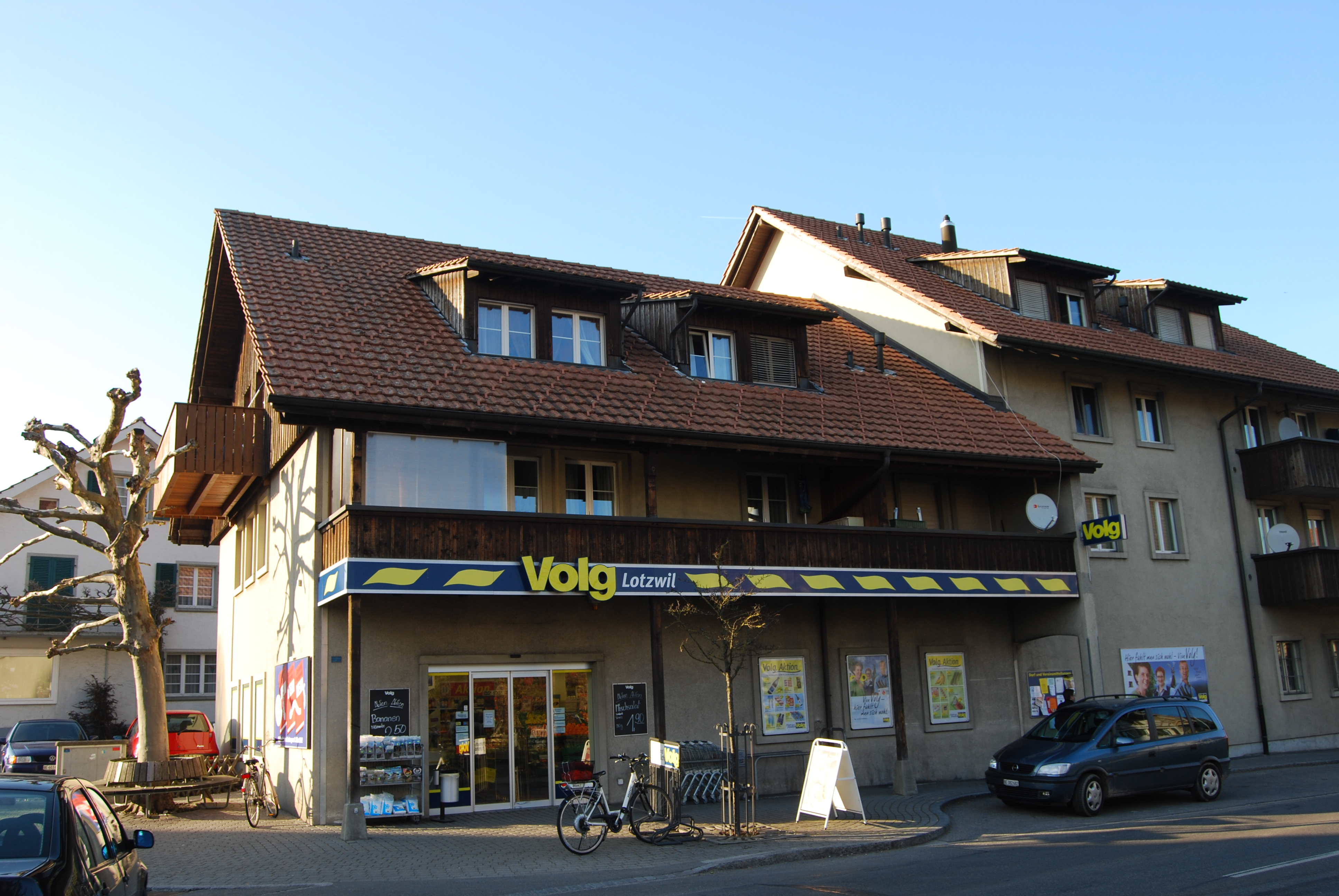 Lotzwil, canton of Bern, SwitzerlandEsperanto: Lotzwil, Kantono Berno, Svislando